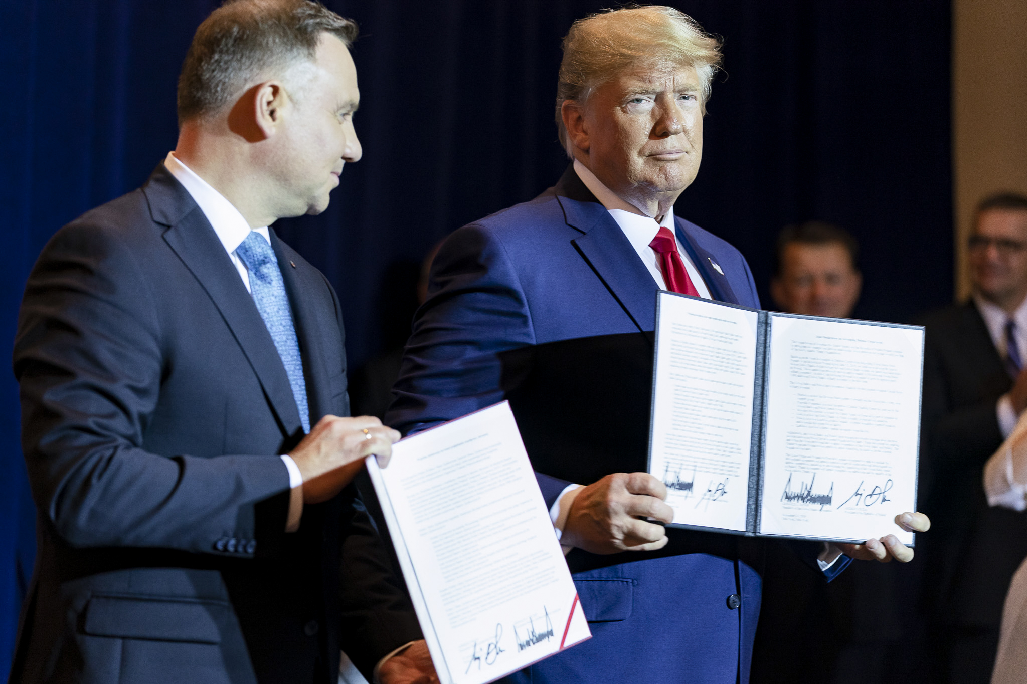 President Donald J. Trump participates in a signing ceremony with Polish President Andrzej Duda Monday, Sept. 23, 2019, at the InterContinental New York Barclay in New York City.(Official White House Photo by Shealah Craighead)